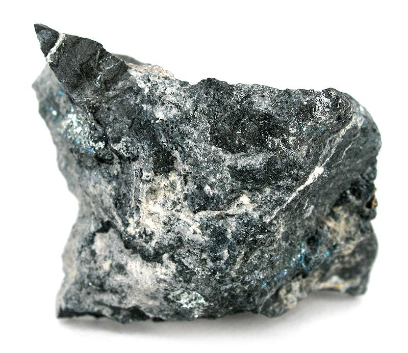 Altaite Locality: Hilltop Mine, Organ District, Doña Ana County, New Mexico, USA (Locality at ) Size: 3.5 x 2.9 x 1.9 cm. Rich silvery veins and flecks of this rare lead telluride mineral, throughout the matrix. Old material, hard to find today in verified specimens. Ex Dr. Georg Gebhard collection.